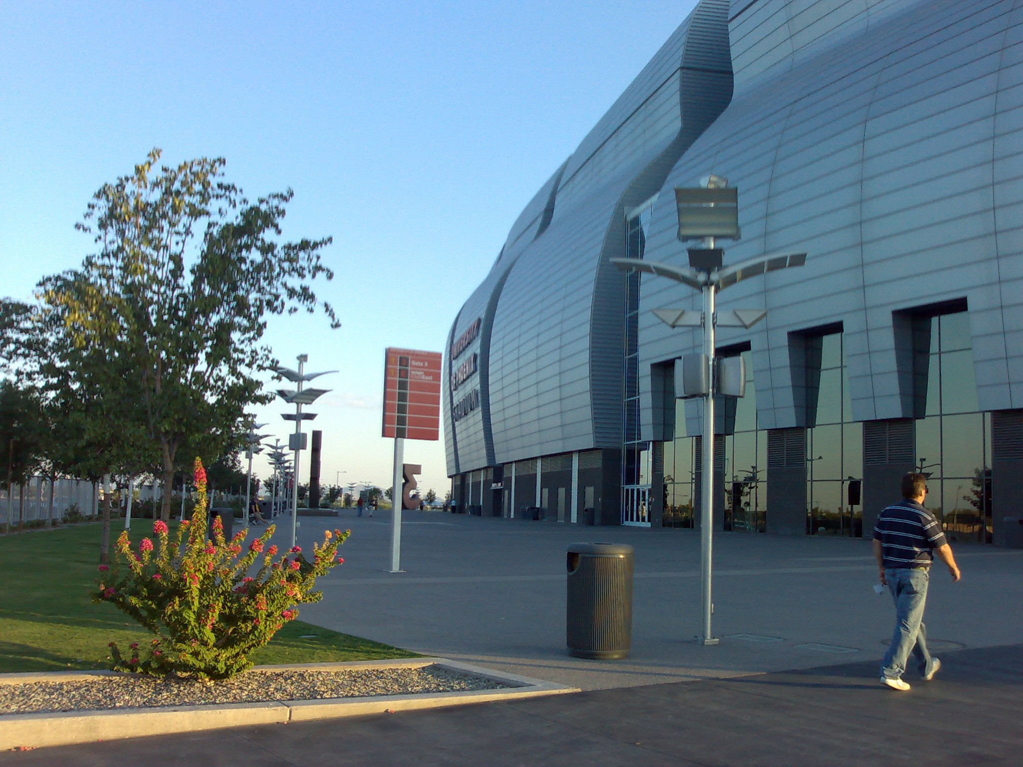 University of Phoenix Stadium (Glendale, Arizona).